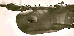 Boeing 314 in US Navy Colours, c. 1942